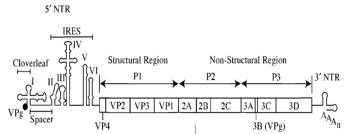 Genomic structure of poliovirus type 1 (Mahoney) [PV1(M)] The PV genome consists of a single-stranded, positive-sense polarity RNA molecule, which encodes a single polyprotein. The 5' non-translated region (NTR) harbors two functional domains, the cloverleaf and the internal ribosome entry site (IRES), and is covalently linked to the viral protein VPg. The 3'NTR is poly-adenylated.